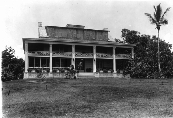 Charles Deering Estate, in Cutler, Florida